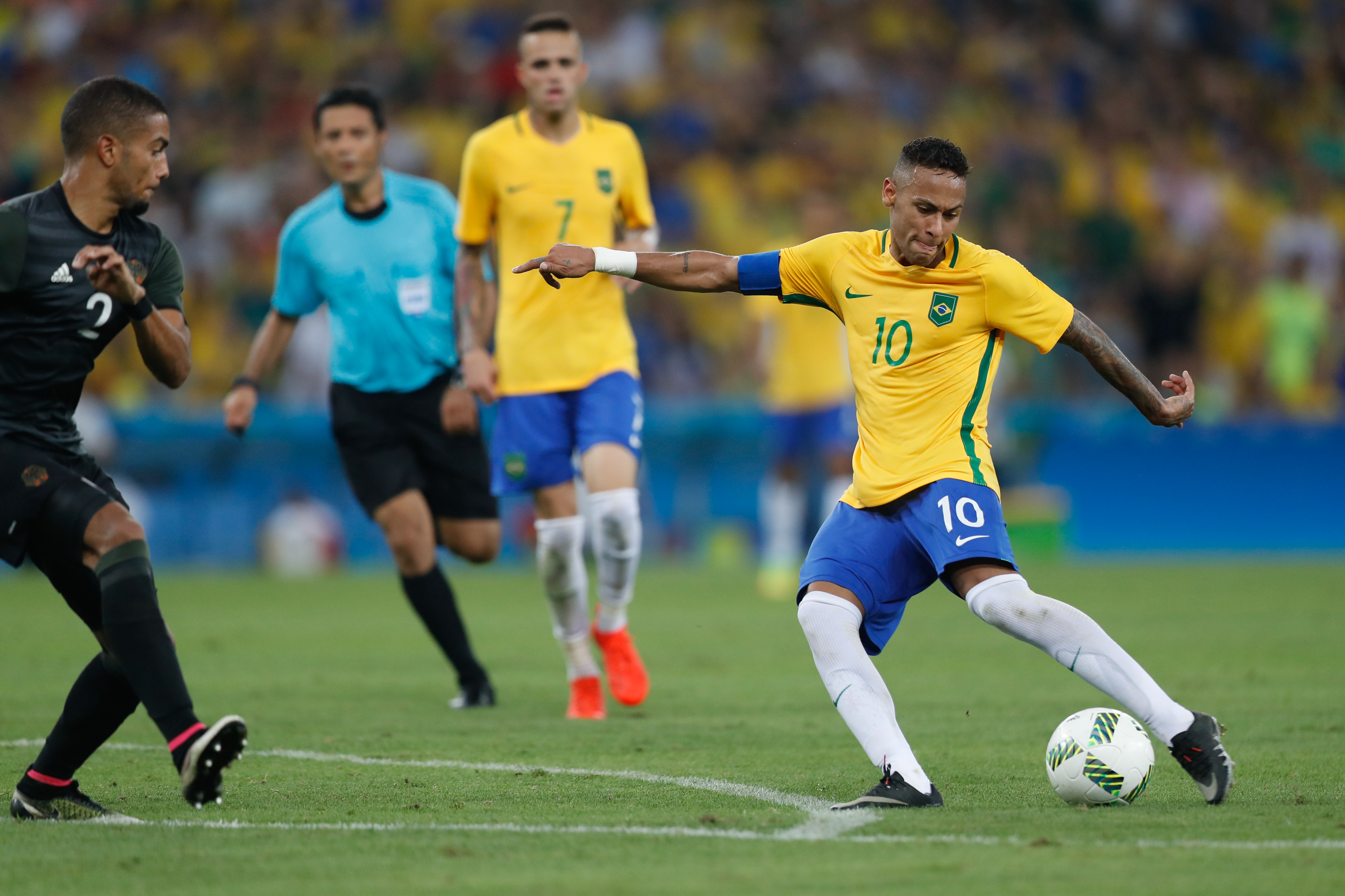 Rio de Janeiro - A seleção brasileira de futebol enfrenta a Alemanha, no Maracanã, em busca da medalha de ouro nas Olimpíadas Rio 2016 (Fernando Frazão/Agência Brasil)